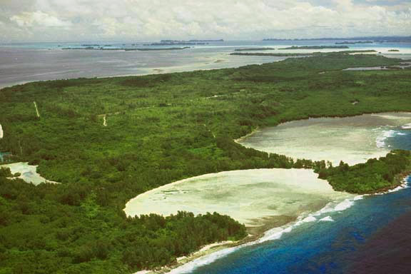 Aerial view of Peleliu